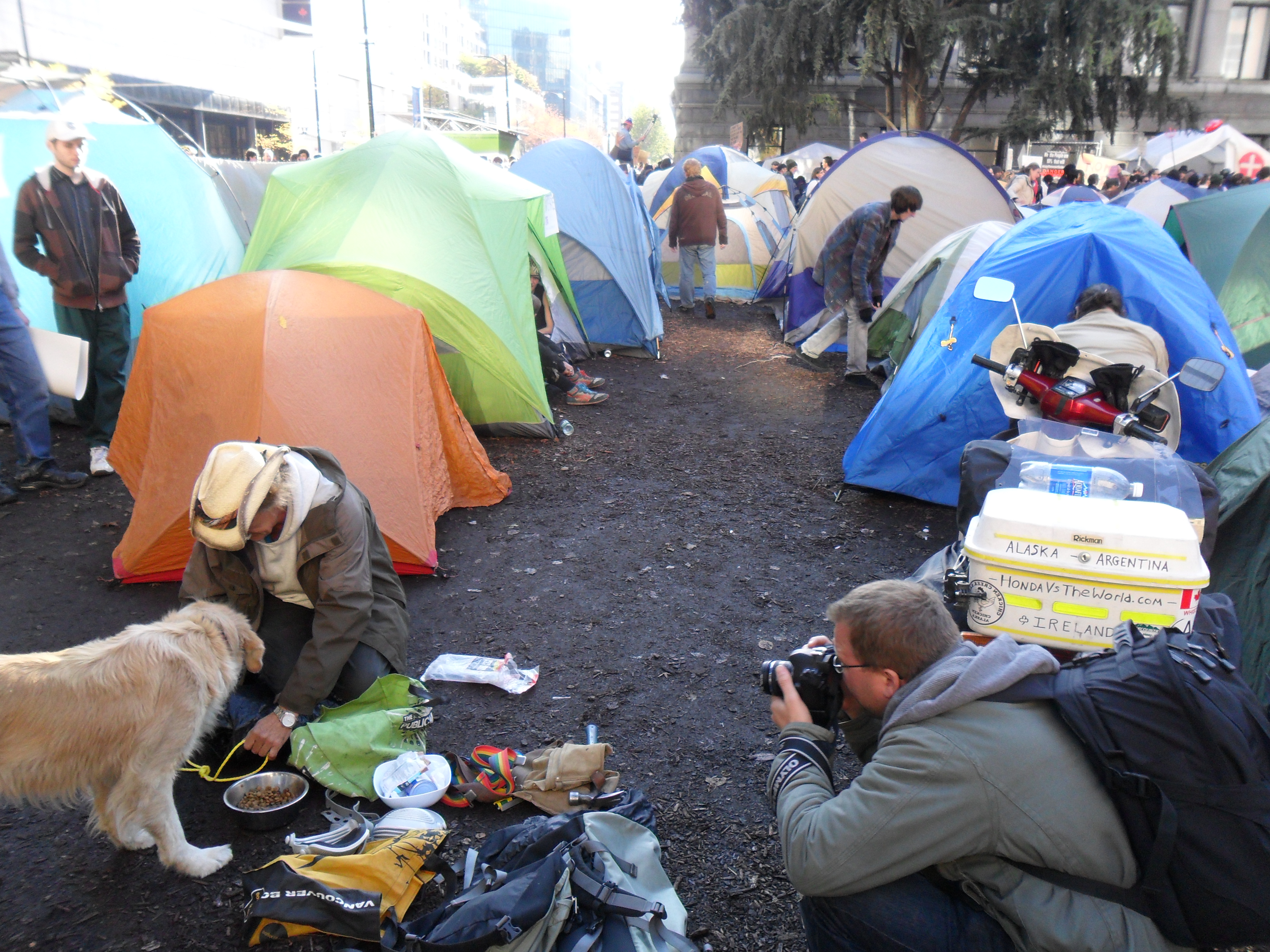 A man taking a photo of a man and his dog in front of tents set up for the Occupy Vancouver protest